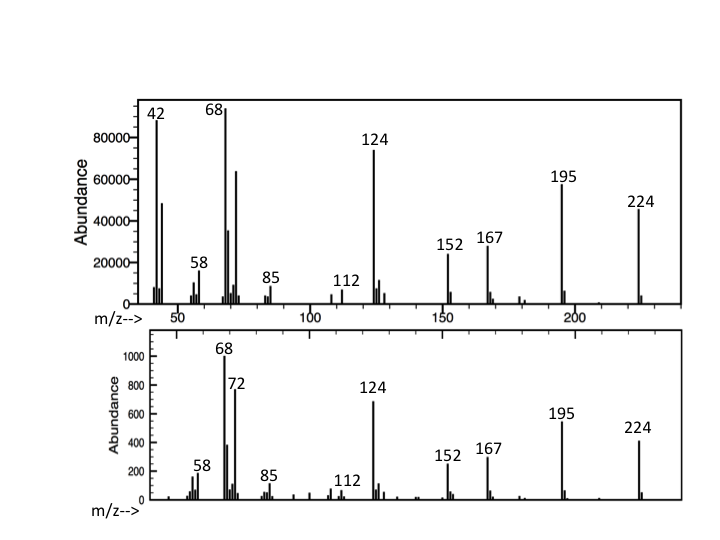 Top panel: the mass spectrum obtained in the course of forsenic expertise for Kivelidi murder case has been digitized and then plotted. Due to numerous defects in the scanned image some minor peaks are not resolved and not reproduced. Bottom panel: mass spectrum of A-234 agent delivered to the NIST98 database.